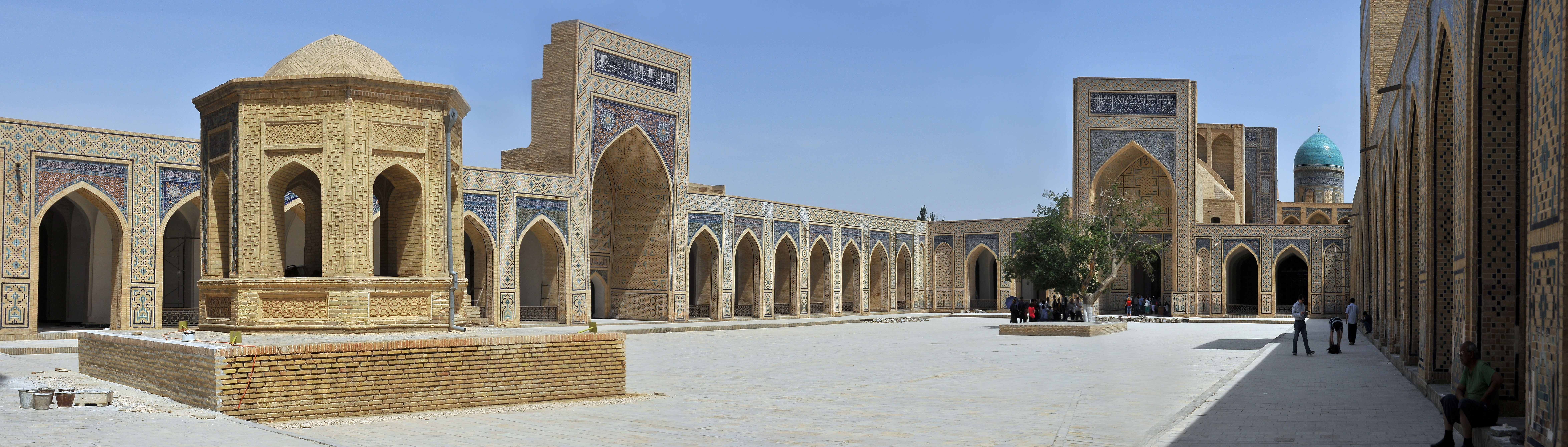 Panoramic of the Kalyan mosque courtyard; Po-i-Kalyan ensemble. Bukhara, Uzbekistan